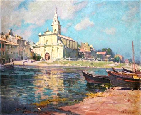 View of Martigues (Jonquières district)